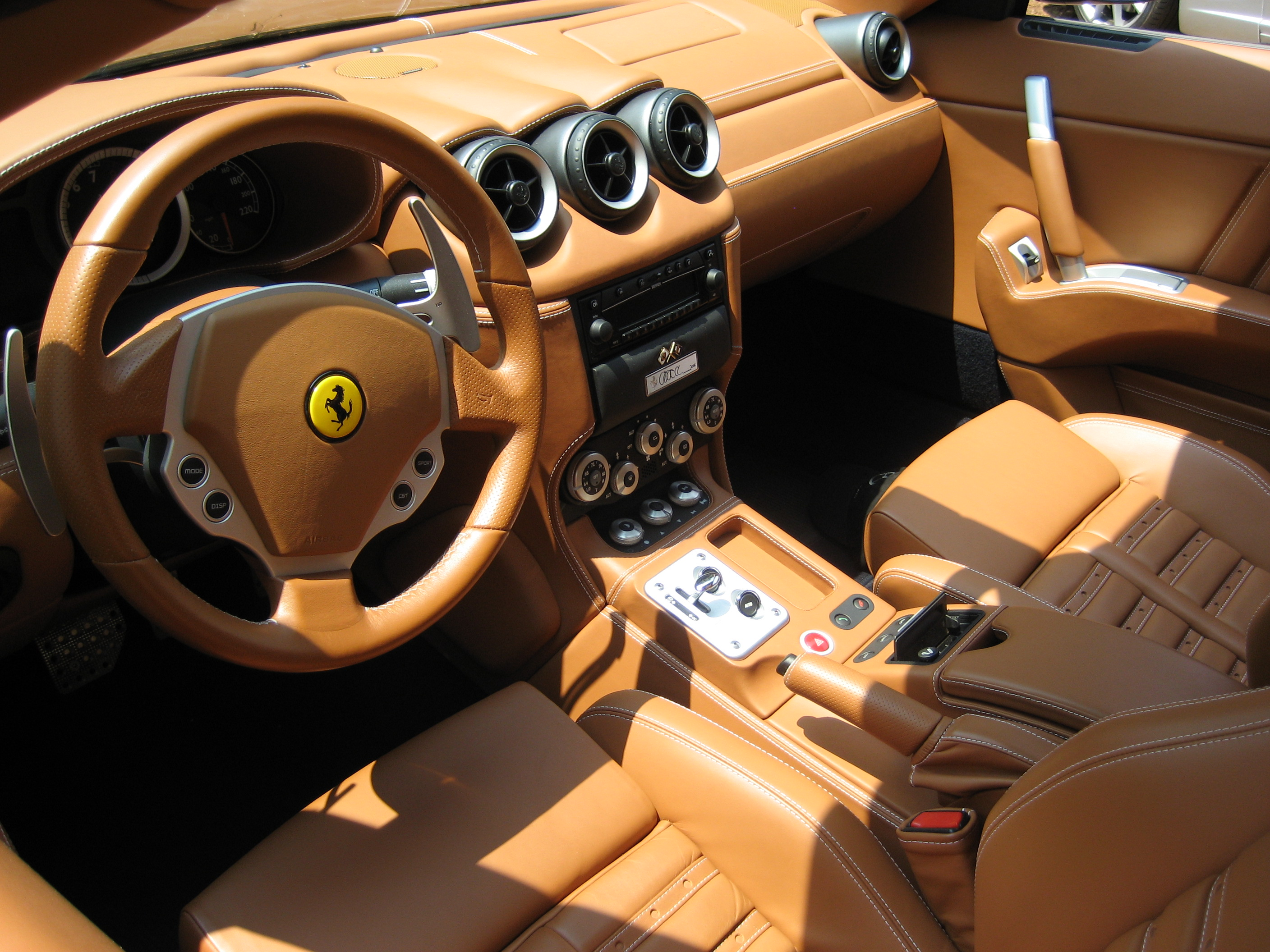 Interior of a 2006 Ferrari 612 Scaglietti. Photographed by Jagvar at the 2007 Greenwich Concours d'Elegance in Greenwich, Connecticut.